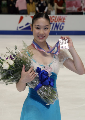 Yukari Nakano (2nd) during the ladies medals ceremony at the 2008 Skate America.